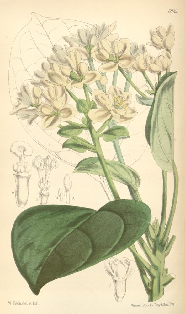 Illustration of Hernandia moerenhoutiana